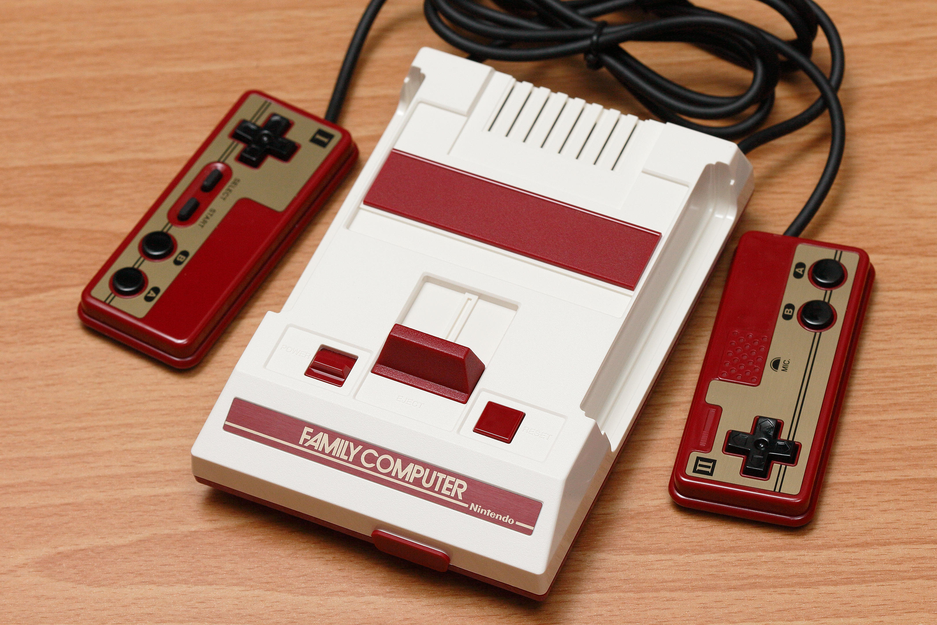 中文（台灣）: 任天堂經典迷你紅白機（Nintendo Classic Mini: Family Computer）CLV-101。